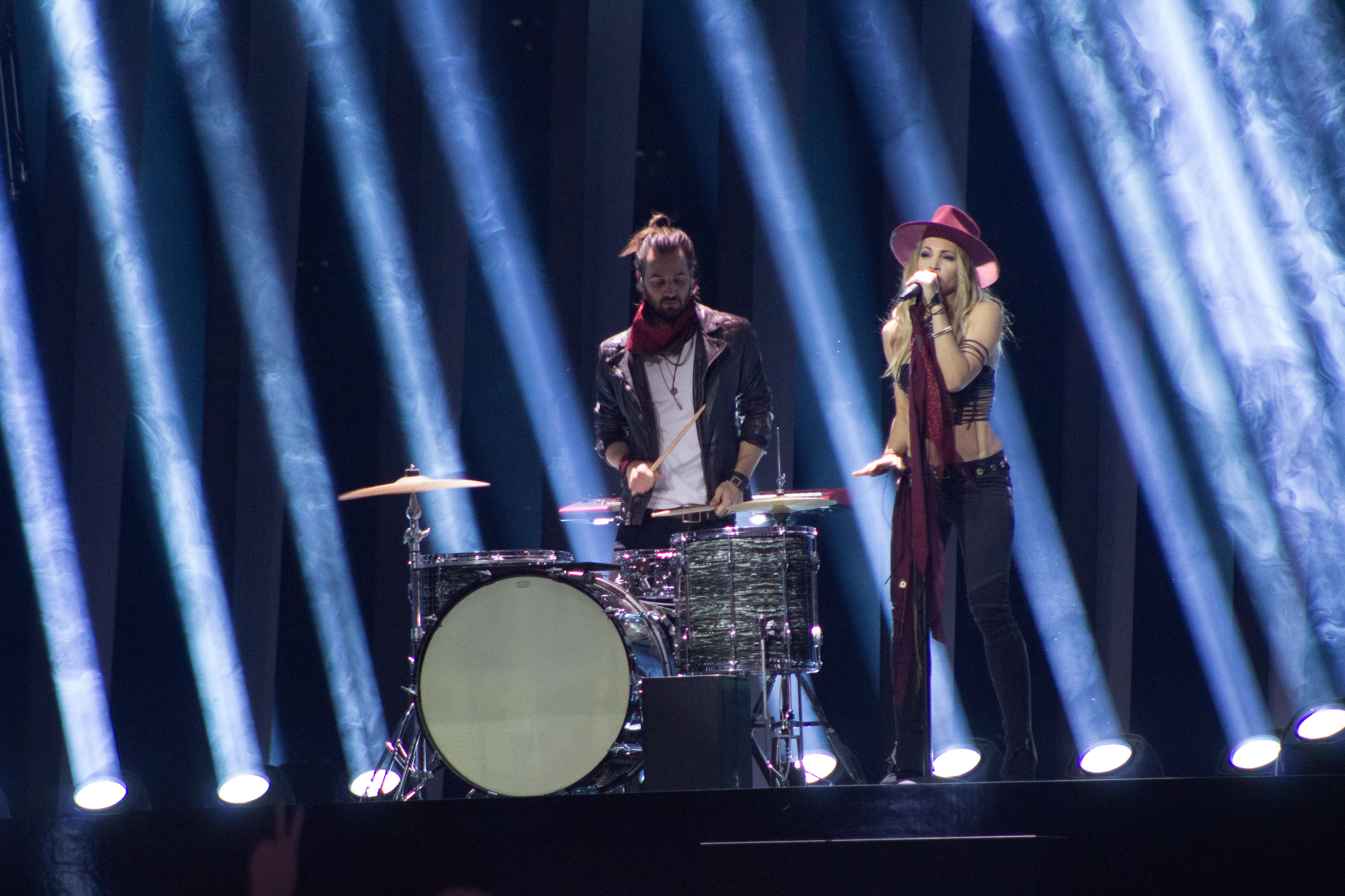 ZiBBZ representing Switzerland with the song "Stones" during a rehearsal before the first semi final of the Eurovision Song Contest 2018 in Lisbon.